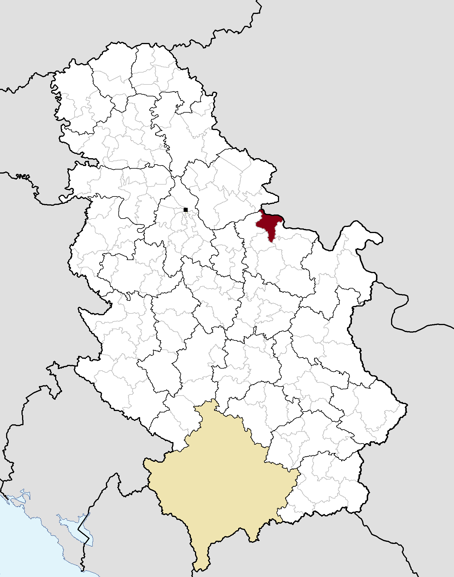 Municipal location in Serbia